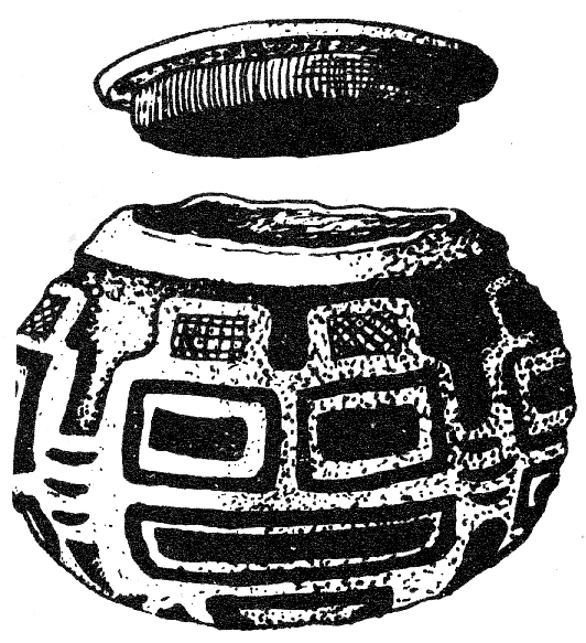 Decorated gourd with burned design (pyrography) from Huaca Prieta; human face motif, ca 2000 BC